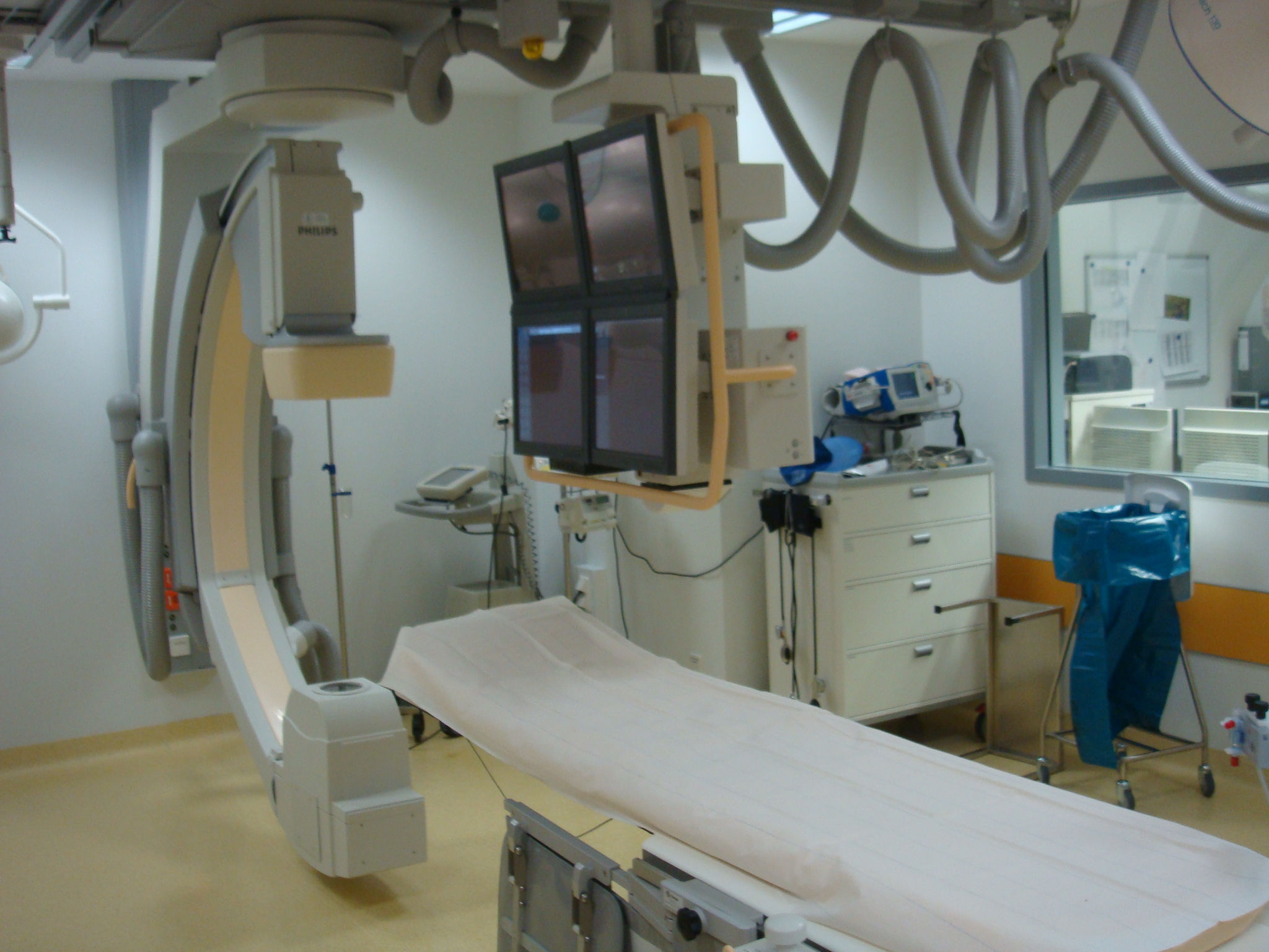 Into a modern intracardiac catheter lab